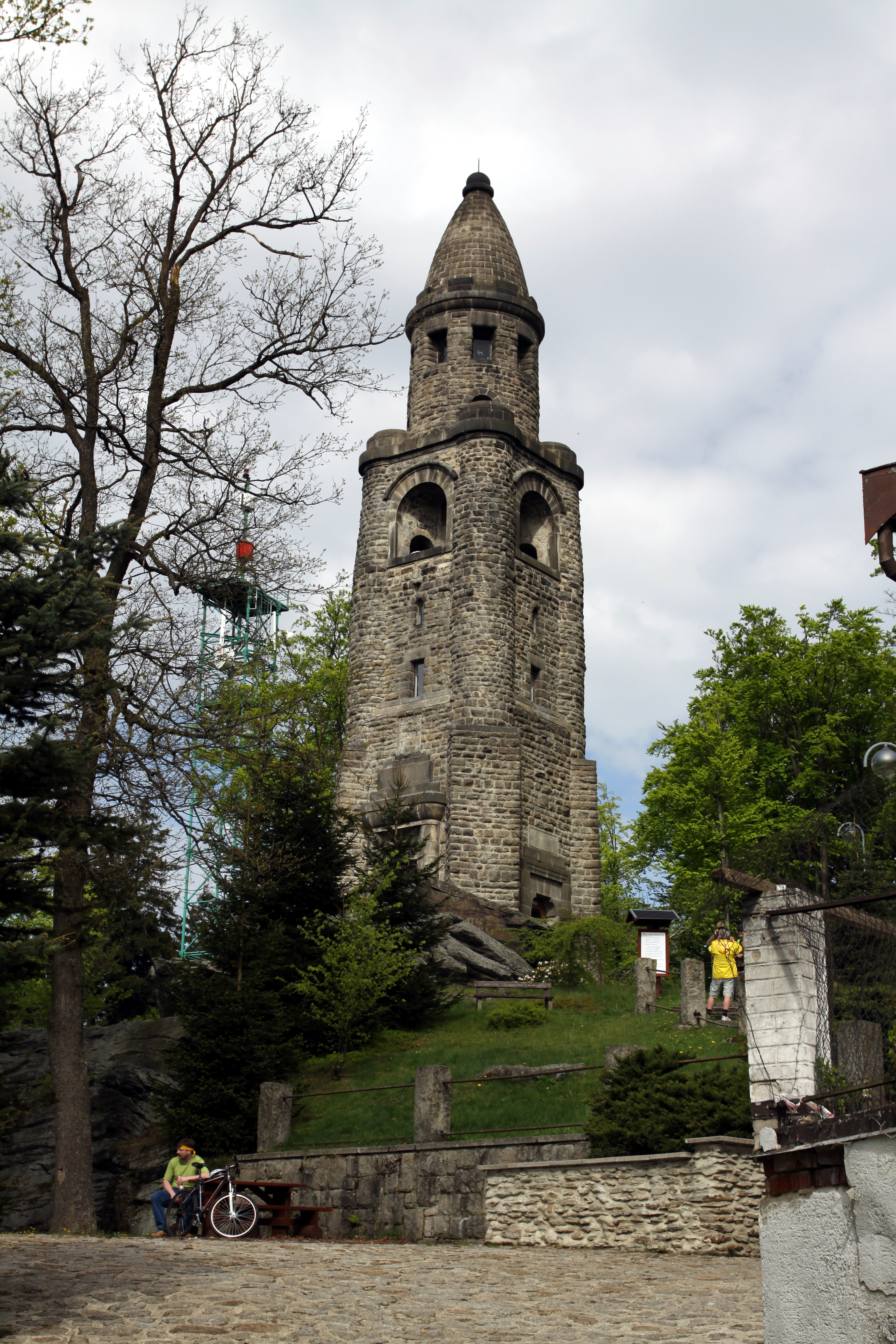 Hill Háj near Aš town with Bismarck's watchtower in Cheb district, Czech Republic